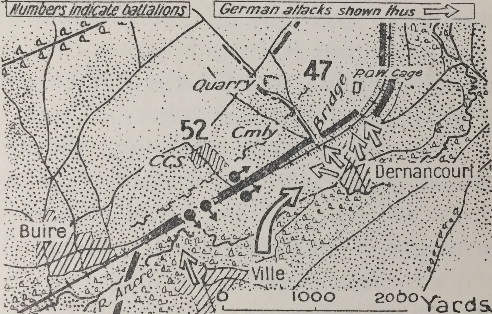 Map of the initial German attacks for the Second Battle of Dernancourt 1918